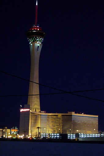 The Stratosphere at night, from the north.